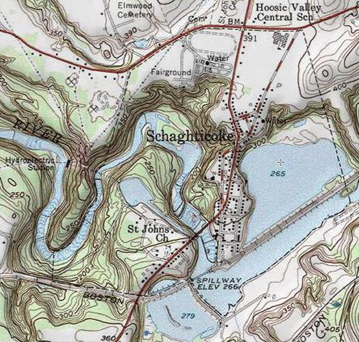 Part of the USGS topographical map Schaghticoke triangle